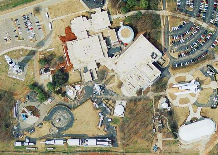 U.S. Space and Rocket Center, Huntsville, Alabama as seen from a USGS aerial photo